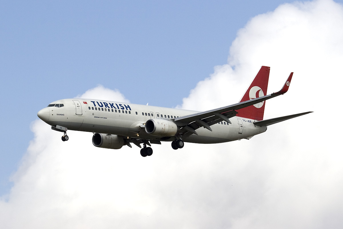 Turkish Airlines Boeing 737-800 (8F2) TC-JGE, the aircraft that crashed on Turkish Airlines Flight 1951, landing at Barcelona Airport in March 2008.